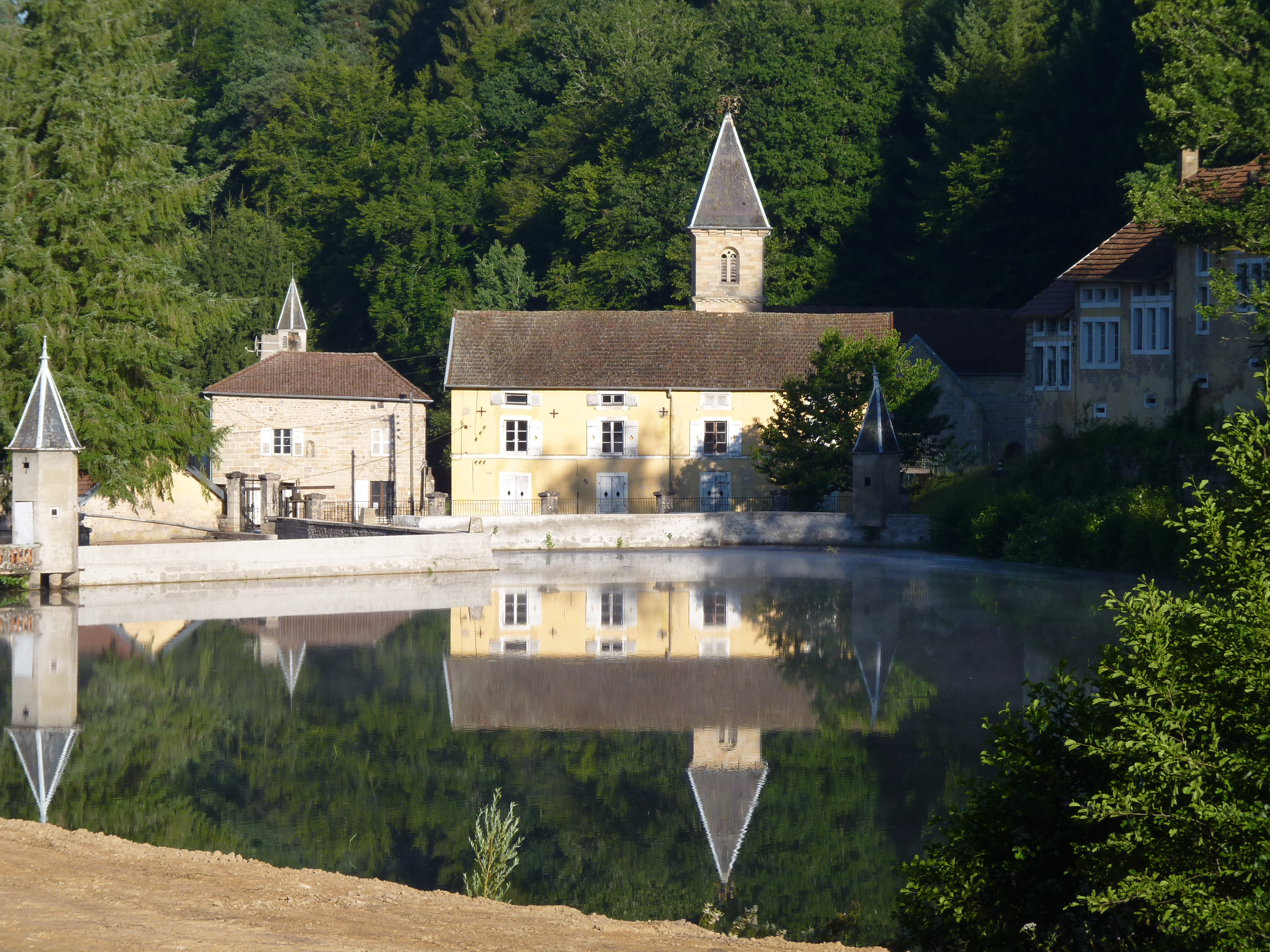 Droiteval